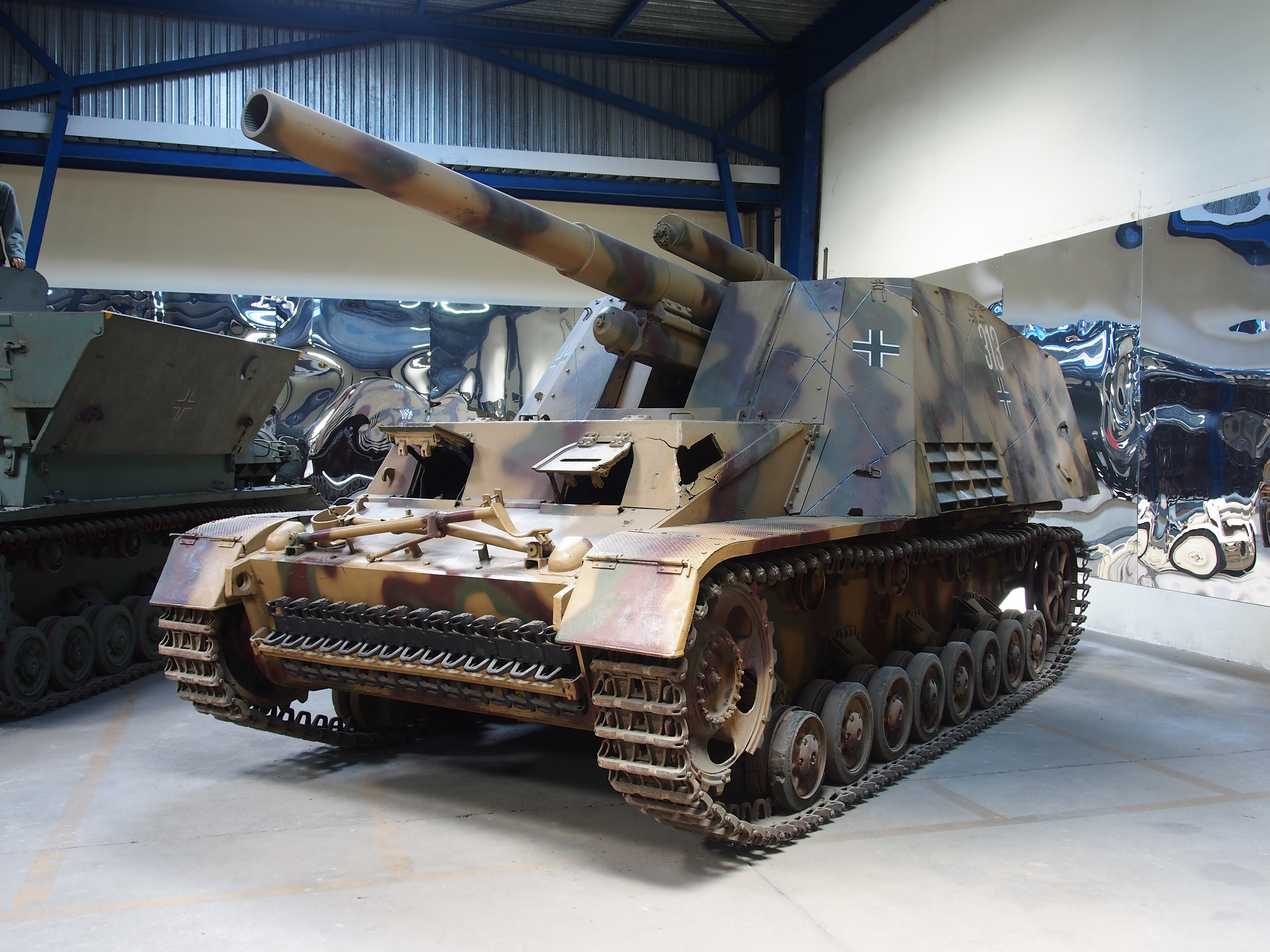 Photographed in the Musée des Blindés, France.